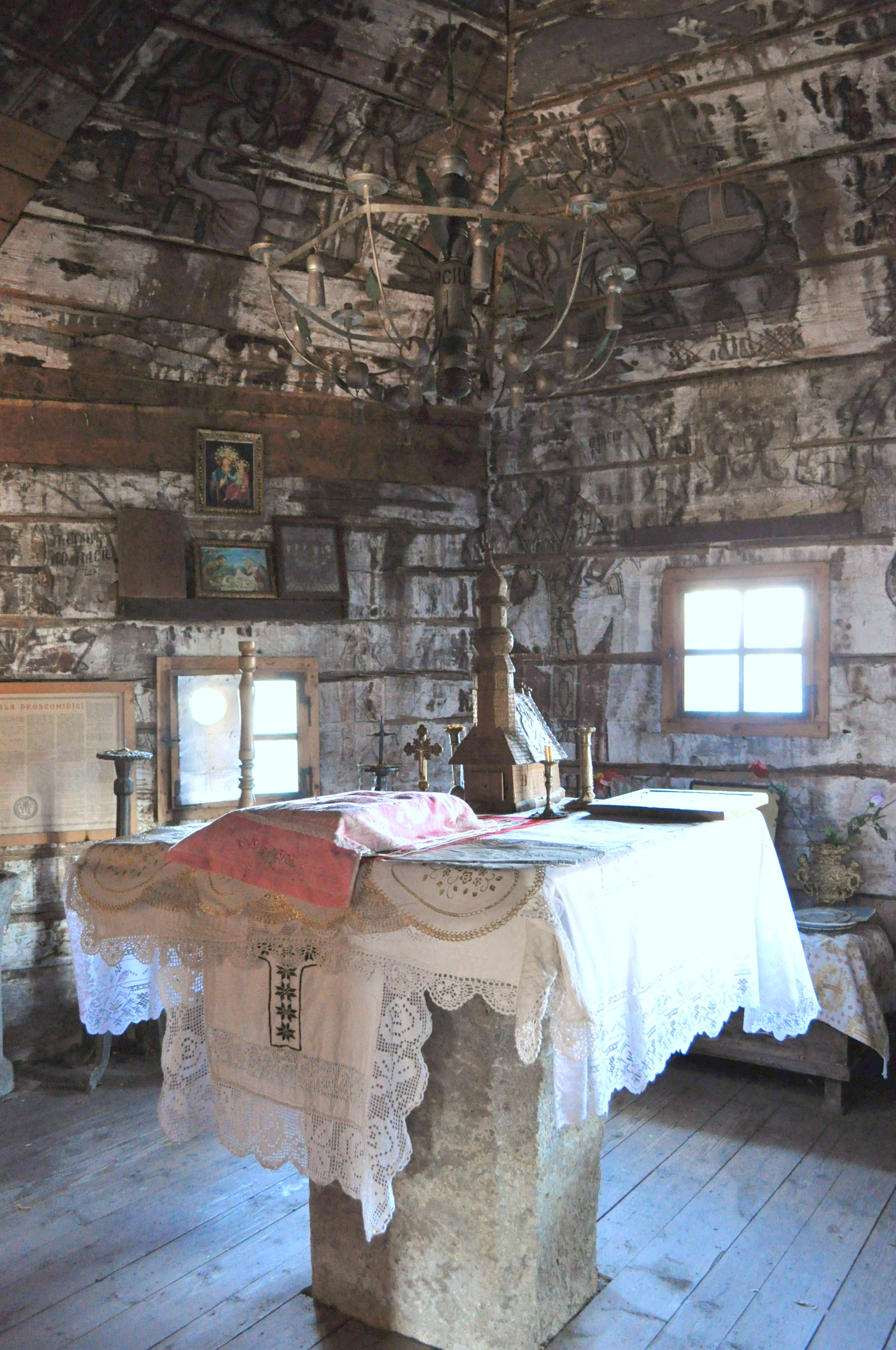 Wooden church in Ocișor, Hunedoara county, Romania